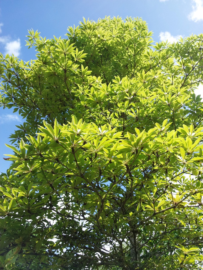 Terminalia bentzoe - Bois Benjoin - Mauritian tree